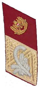 Rank Patch of the Austrian federal police